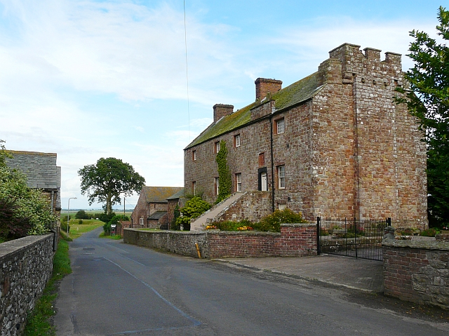 Drumburgh Castle A 13th century tower house later converted to a farmhouse. It has extremely thick walls built with stone from Hadrian's Wall. Grade I listed.